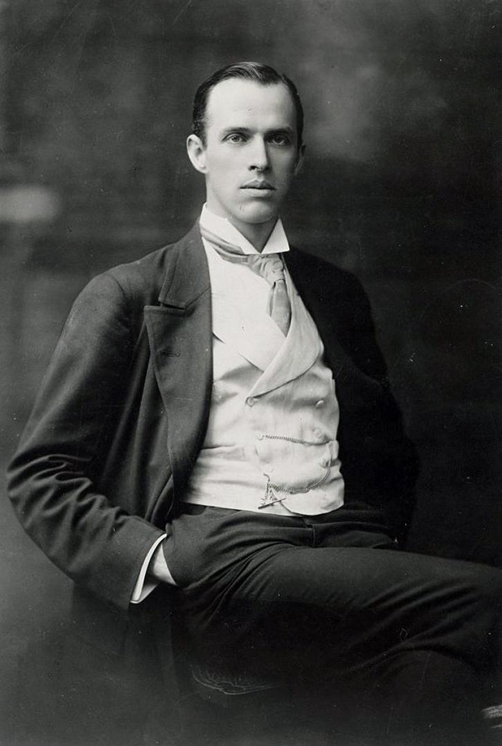 William English Walling, Chairman of NAACP Executive Committee (1910–1911) [1906]. Photograph. NAACP Collection, Prints and Photographs Division, Library of Congress (016.00.00) Courtesy of the NAACP Digital ID # ppmsca-23824